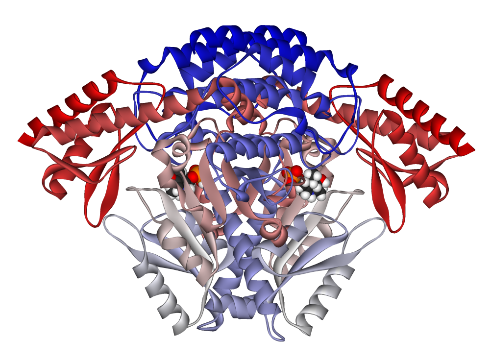 Ribbon diagram of a swine aromatic L-amino acid decarboxylase (DOPA decarboxylase) dimer in complex with pyridoxal-5'-phosphate. Units colored from N- to C-terminal end. Created using Accelrys DS Visualizer Pro 1.7 and GIMP.